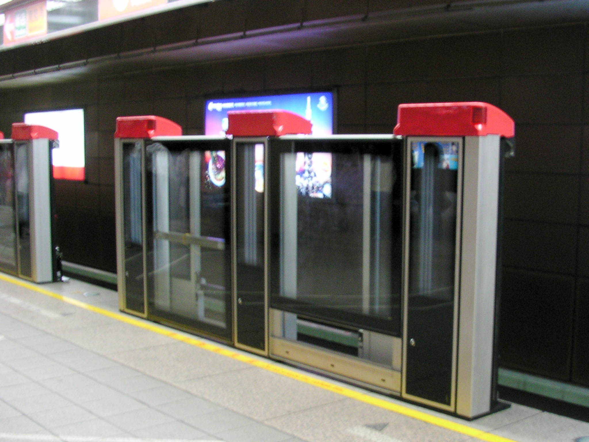 Automatic platform gates on Taipei MRT Taipei Main Station(station code: R13) red line platforms Bân-lâm-gú: Tâi-pak Tsia̍t-ūn Tâi-pak Tshia-tsām(pian-hō:R13) ê Âng-suànn gue̍h-tâi tsū-tōng-mn̂g. 臺北捷運臺北車站（編號：R13）的紅線月臺自動門。